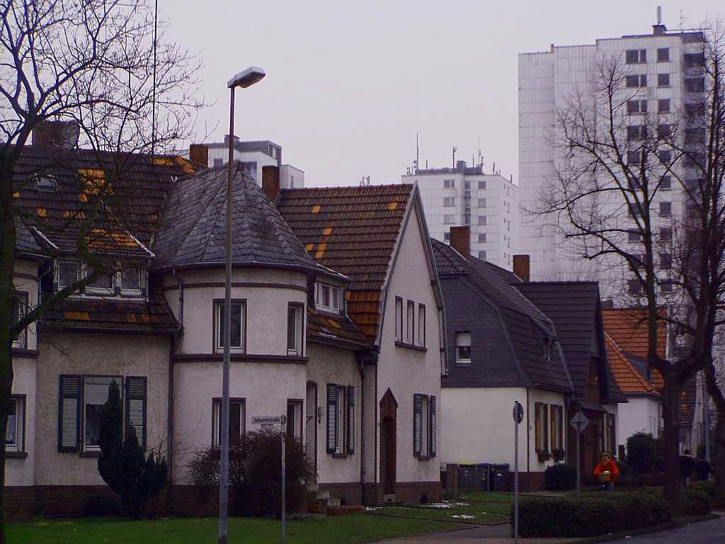 Near downtown, typical colony of miners, in the background "drei Weißen Riesen" of Kamp-Lintfort